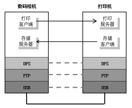 PictBridge protocal stack/PictBridge协议栈